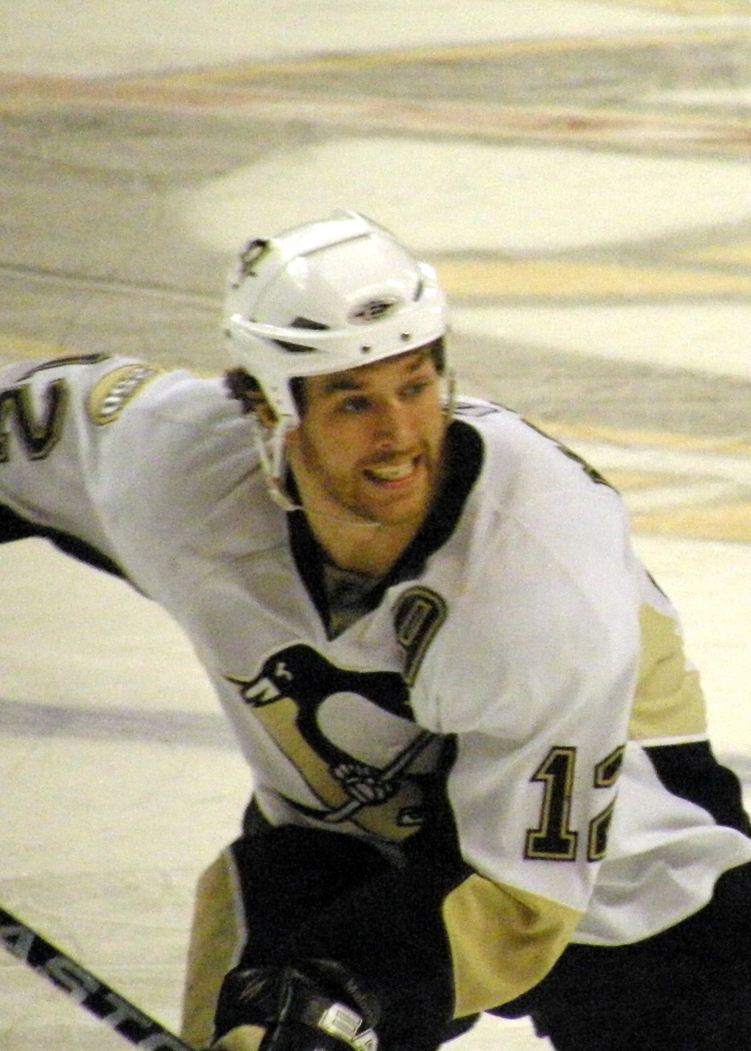 Ryan Malone, February 28, 2008